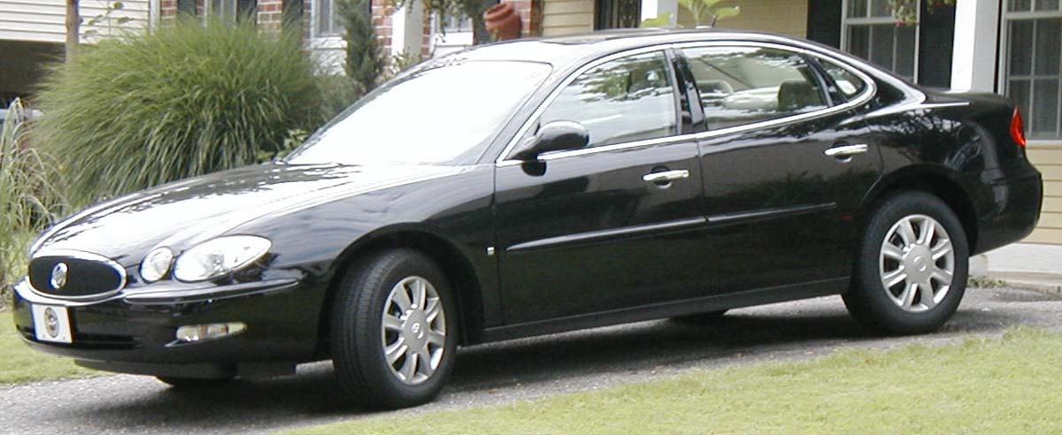 2005-2006 Buick LaCrosse photographed in USA.